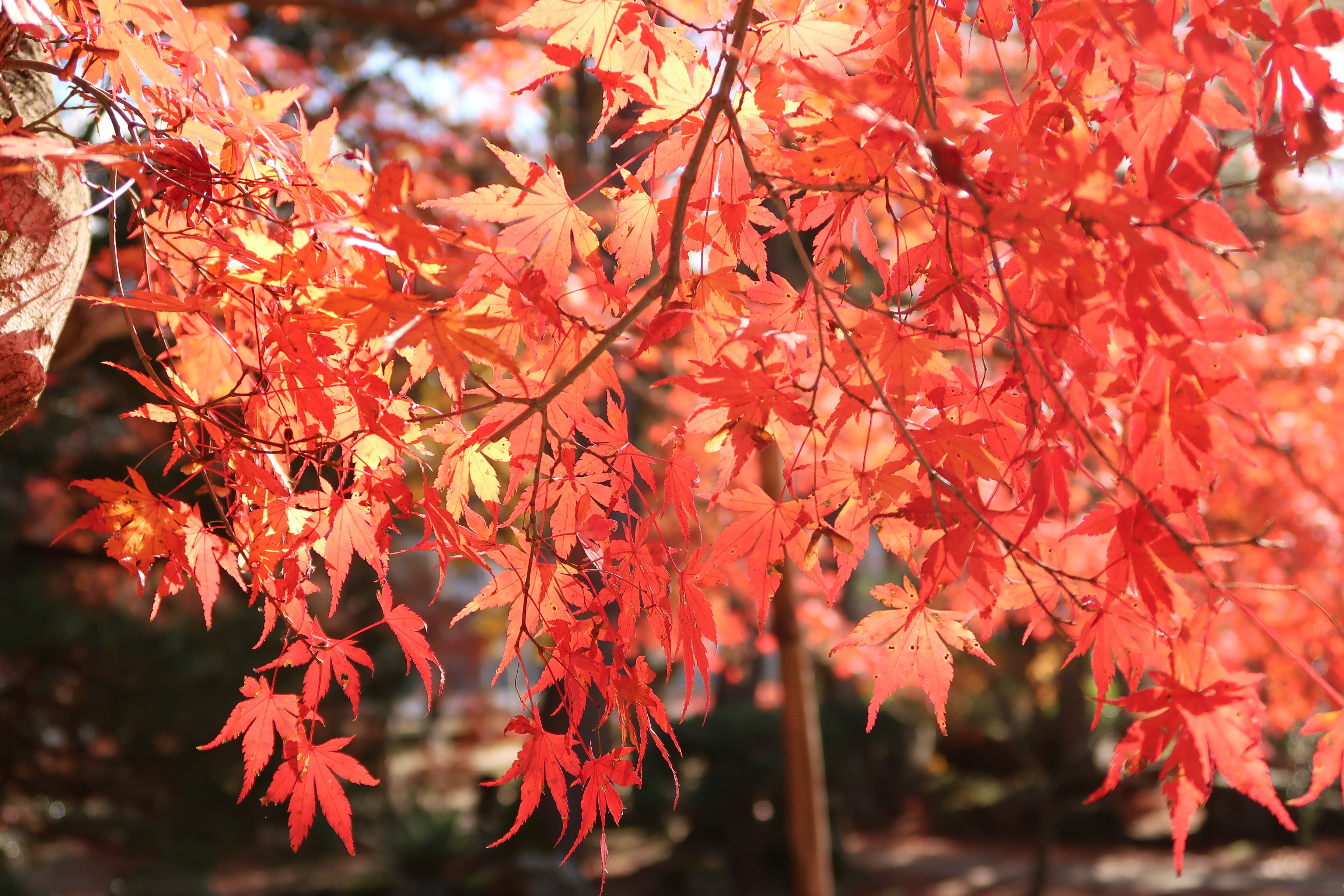 Photo of autumn leaves on a Japanese maple at Sogi Park, Toki, Gifu Prefecture, Japan.